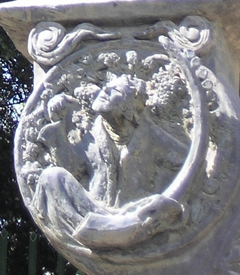 The Knesset Menorah, Jerusalem (detail - Left side of the Menorah)